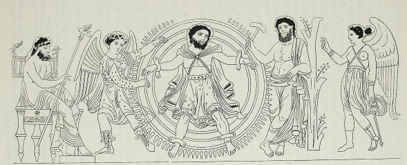 Ixion in sky on antic amphora